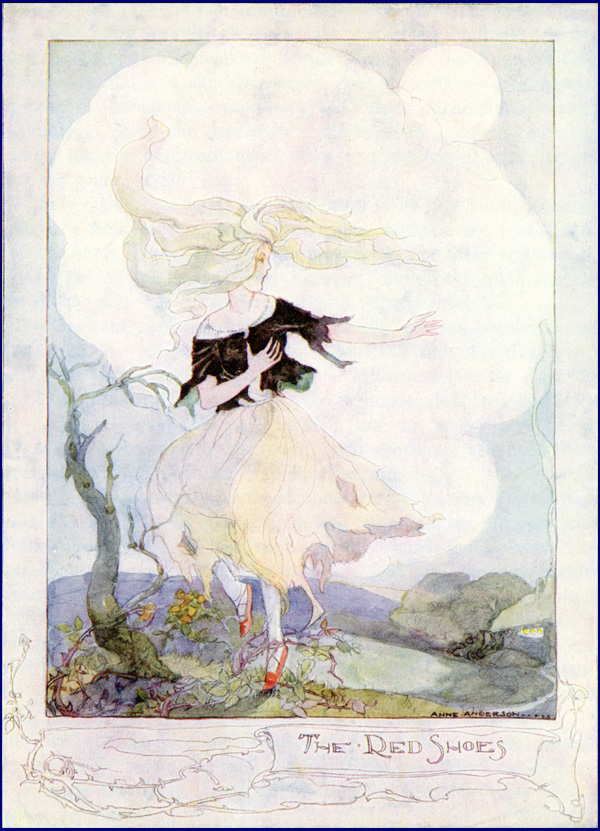 "The Red Shoes"